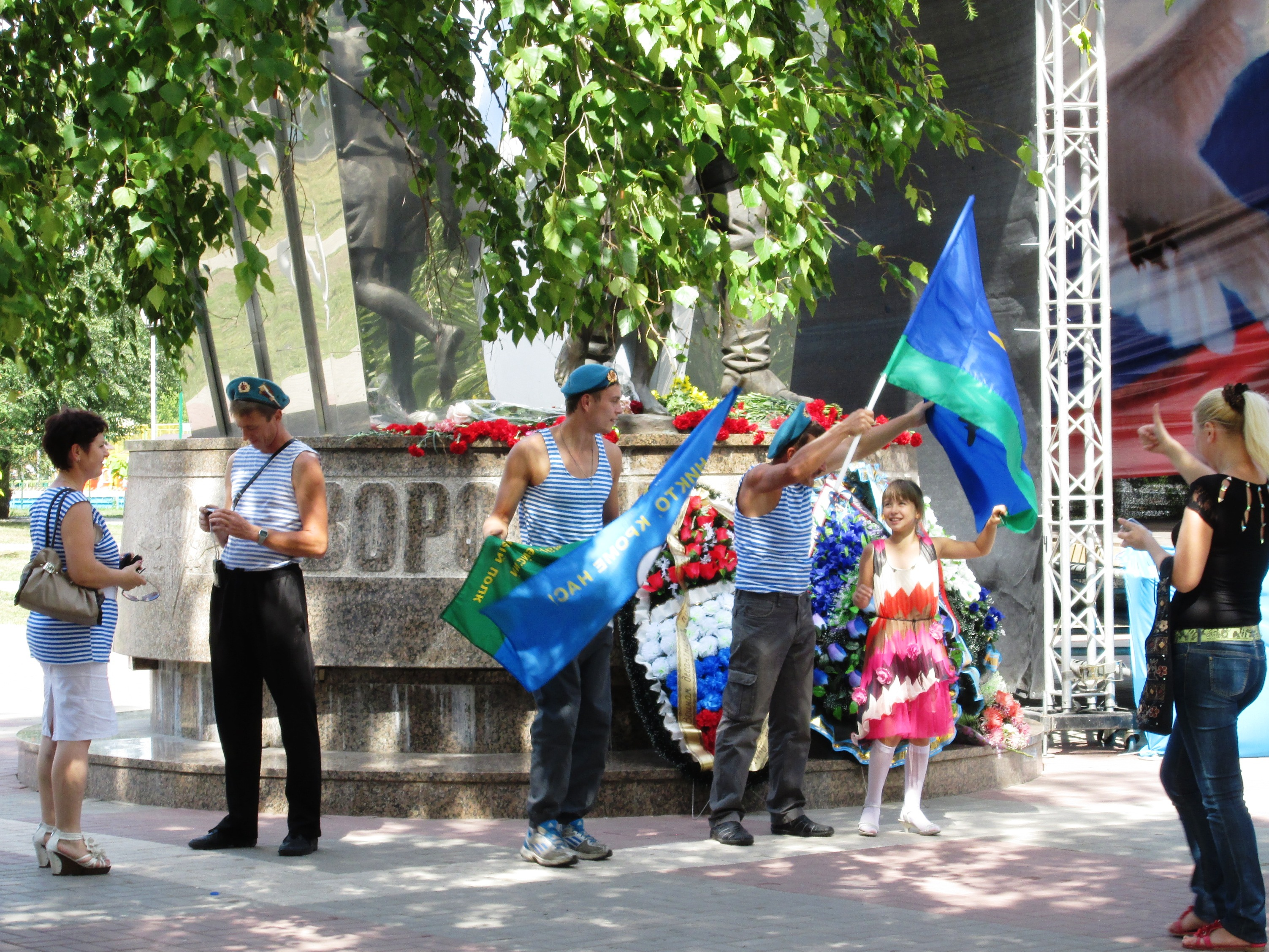 Airborne forces day in Voronezh